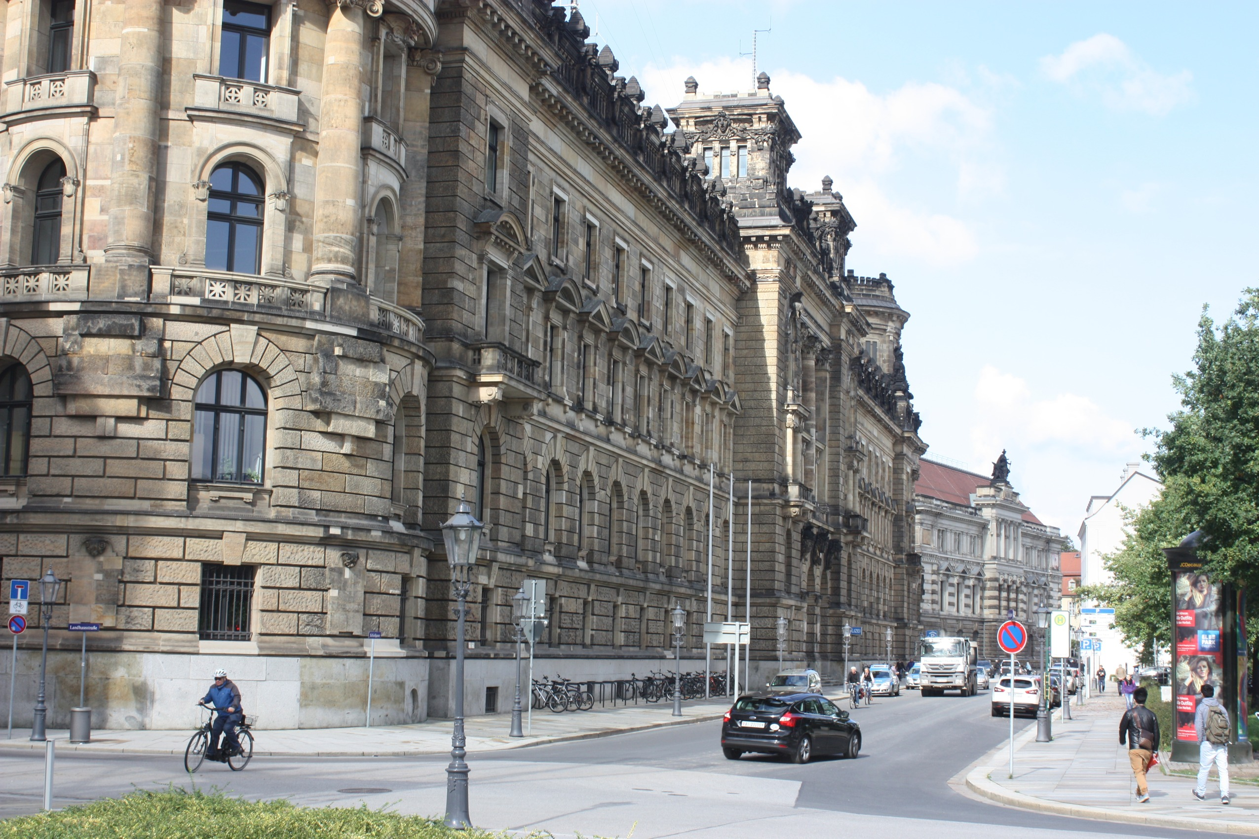 Dresden, the police headquaters This is a photograph of an architectural monument. 7